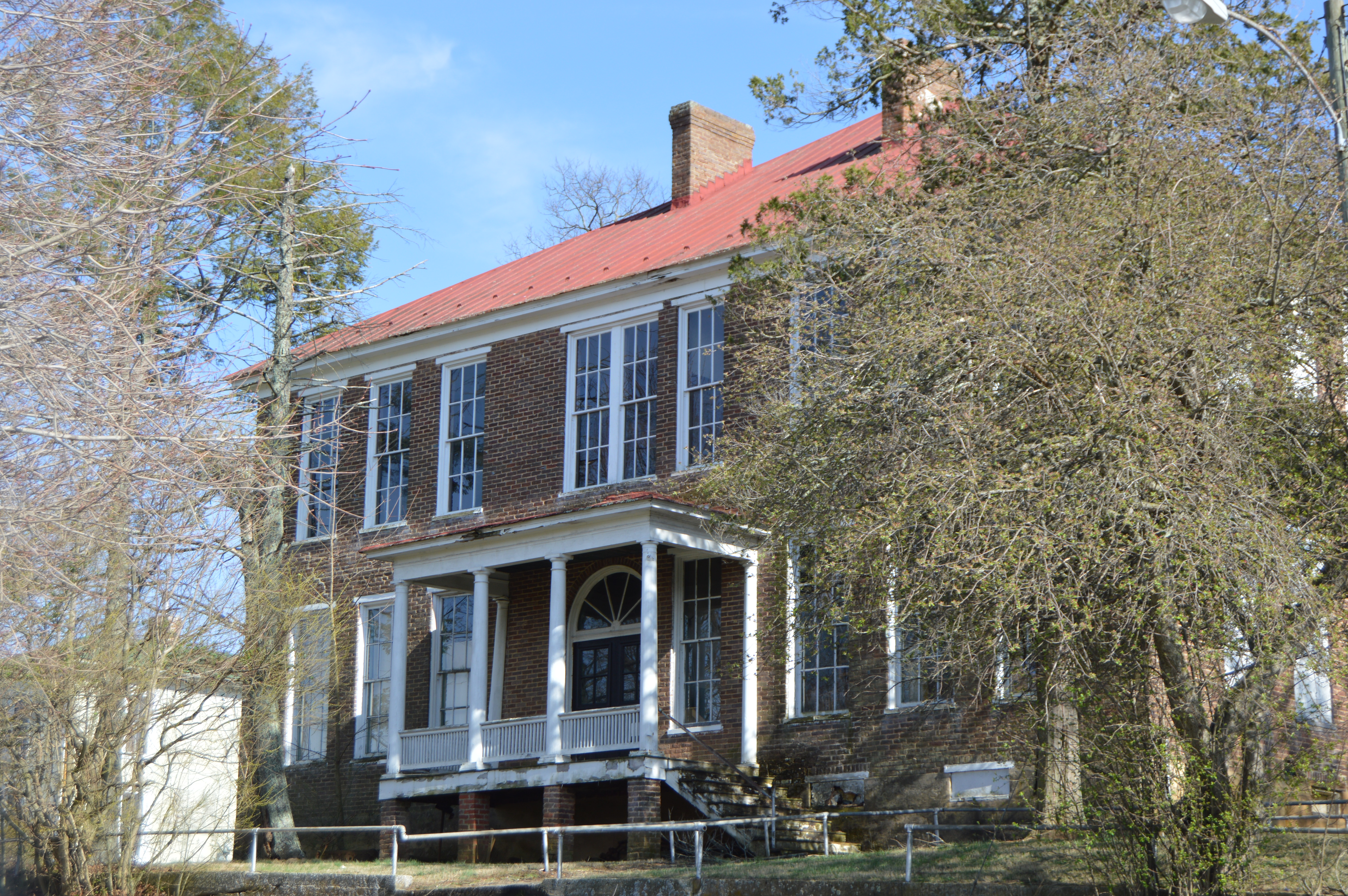 Front of the Middlebrook School, located on Cherry Grove Road at Middlebrook in Augusta County, Virginia, United States. Built in 1916, it is listed on the National Register of Historic Places.